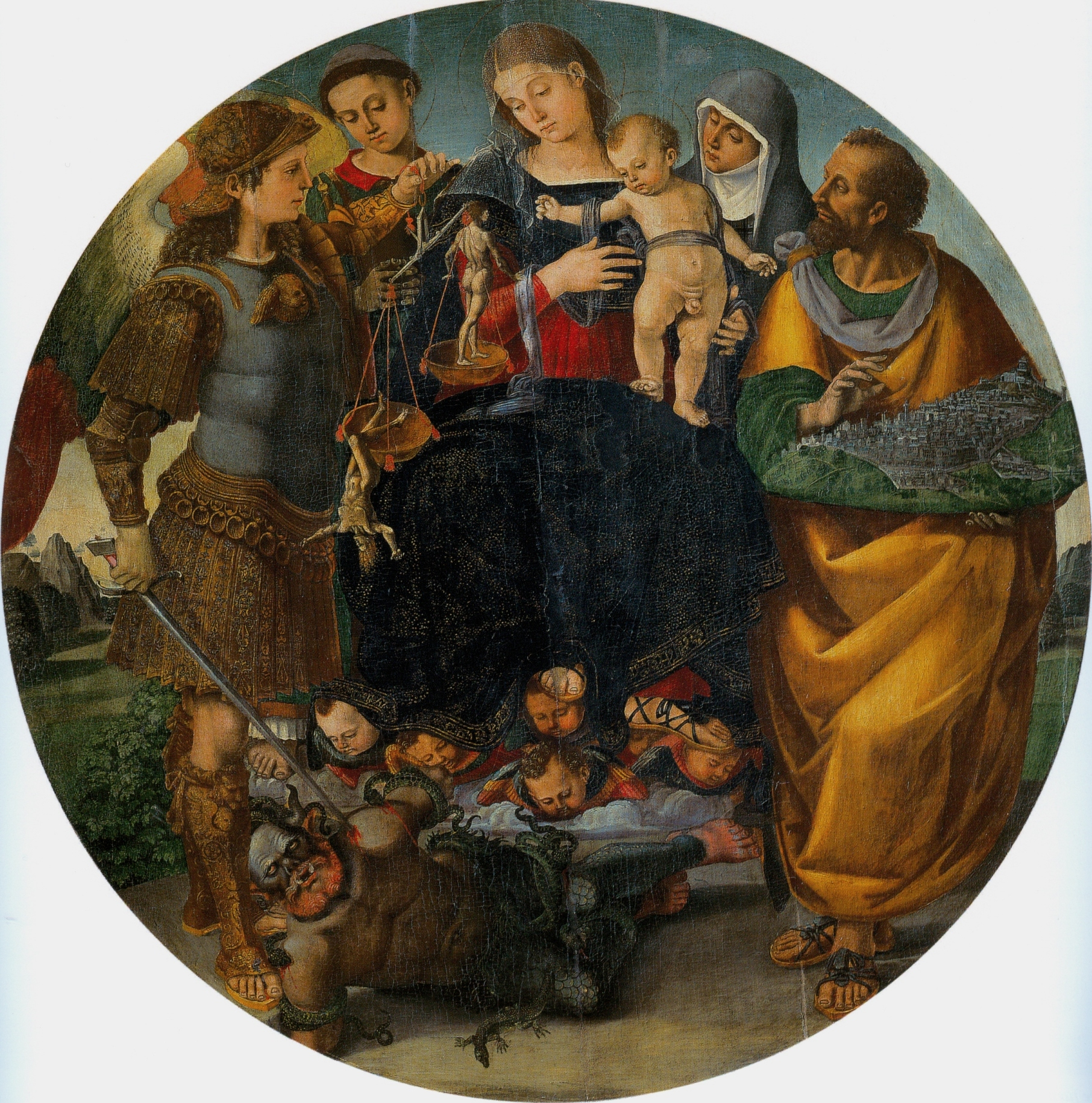 Virgin and Child with Sts Michael, Vincent of Saragozza, Margaret of Cortona and Mark. Accademia Etrusca, Cortona. oil on panel. diameter 146cm.